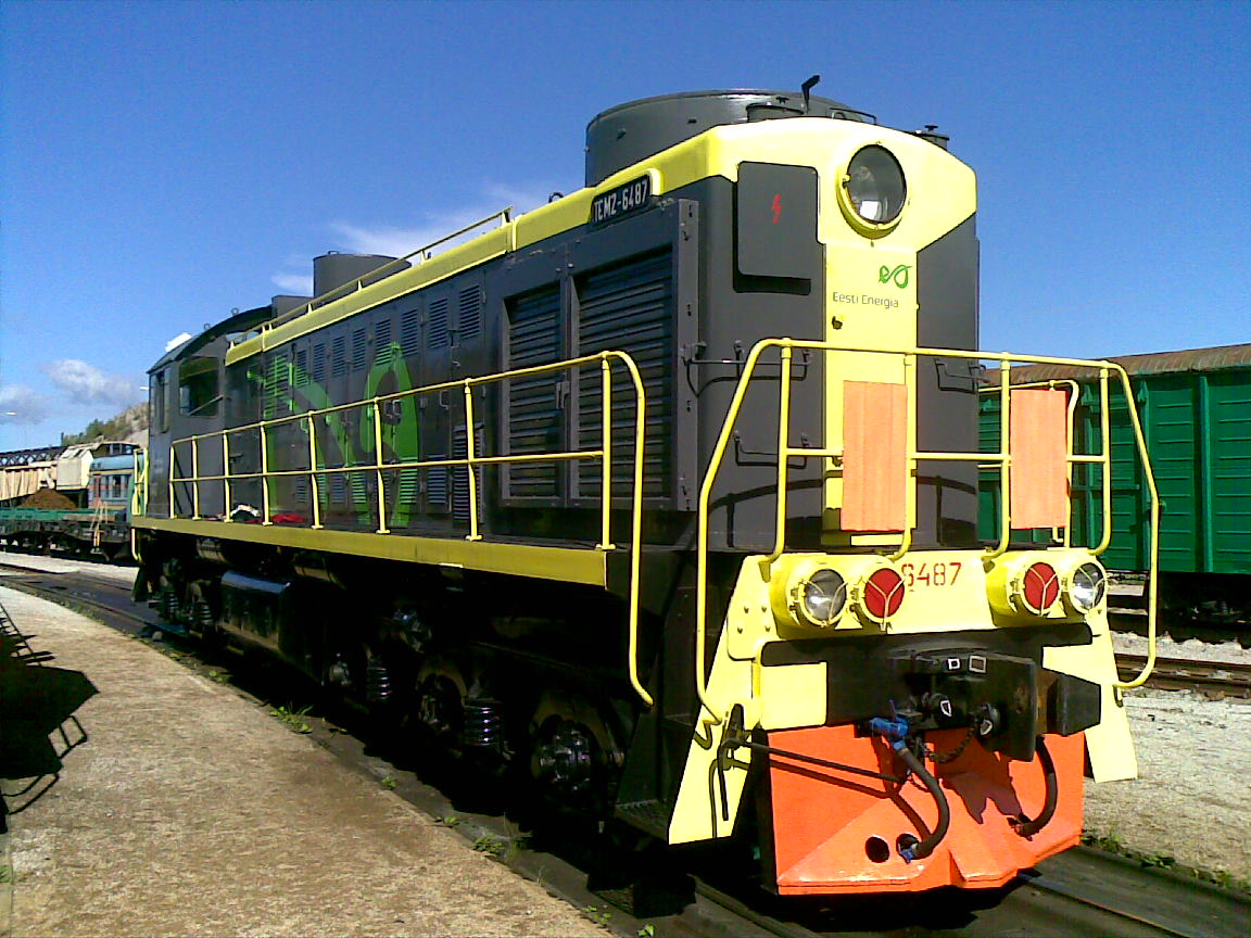 diesel locomotive TEM2 6487